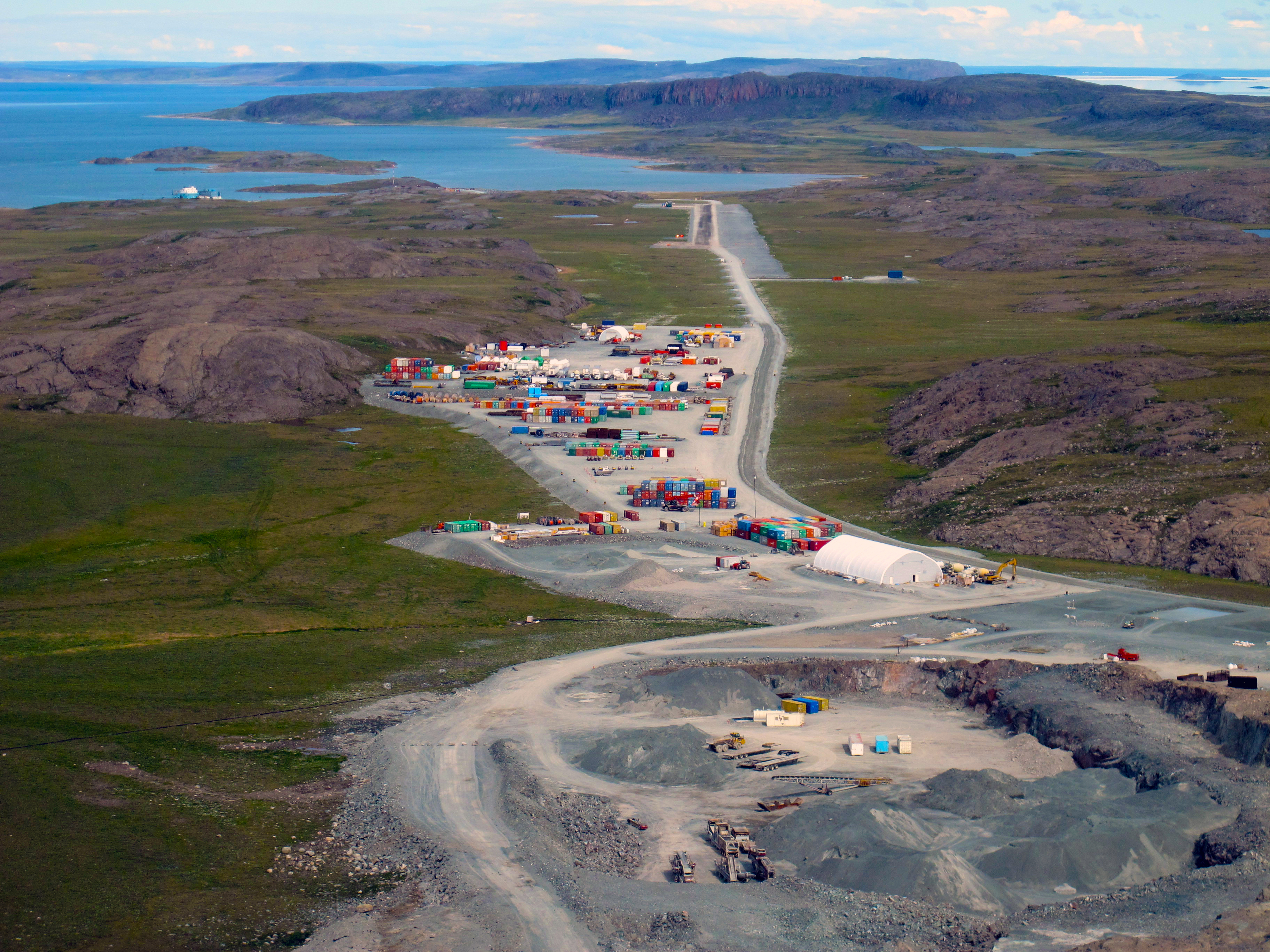 On approach to the runway